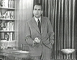 Screen capture from Richard Nixon's Checkers speech, which is part of The Fund Broadcast